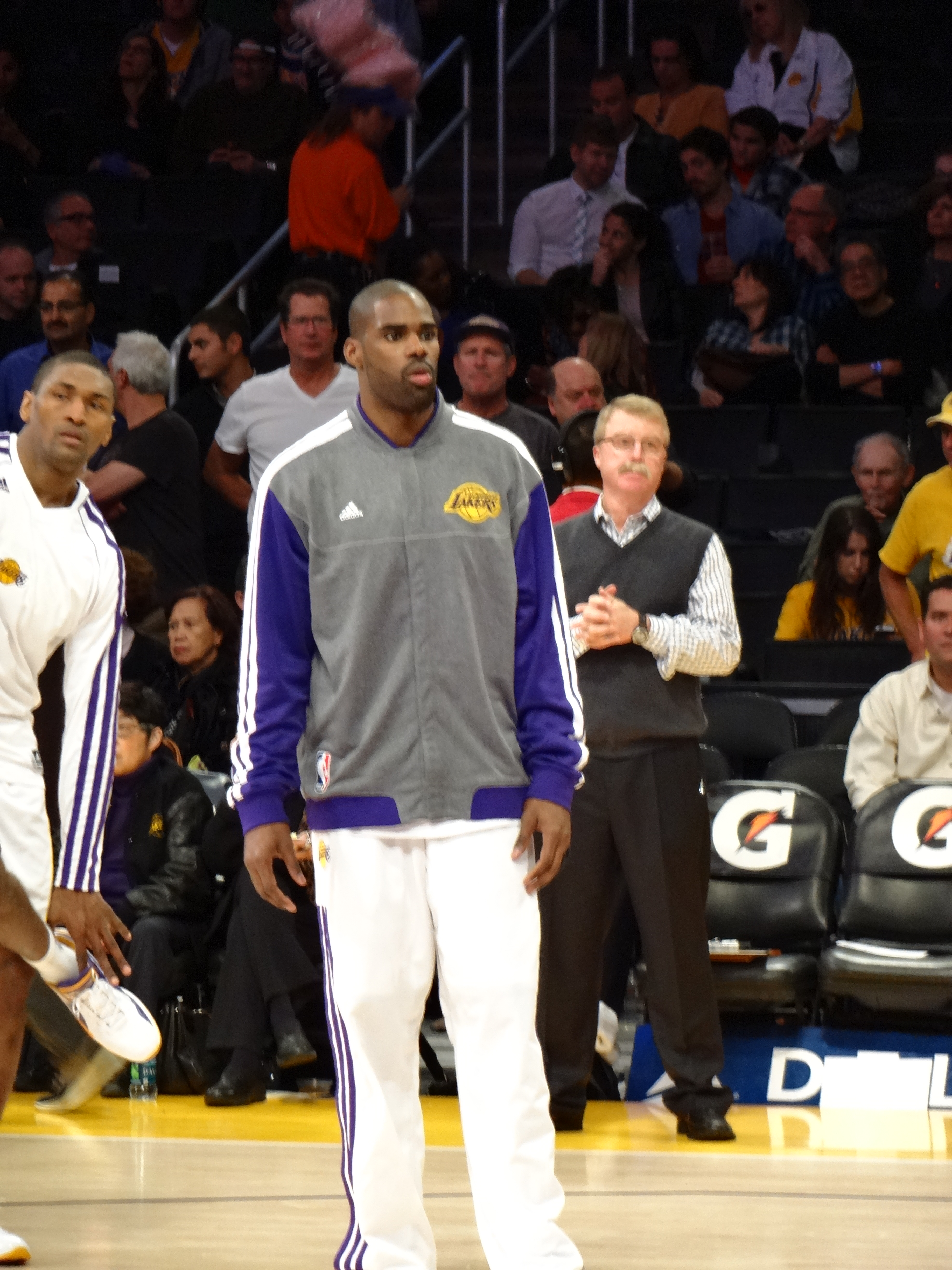 Los Angeles Lakers vs Denver Nuggets at the Staples Center. Antawn Jamison during halftime.